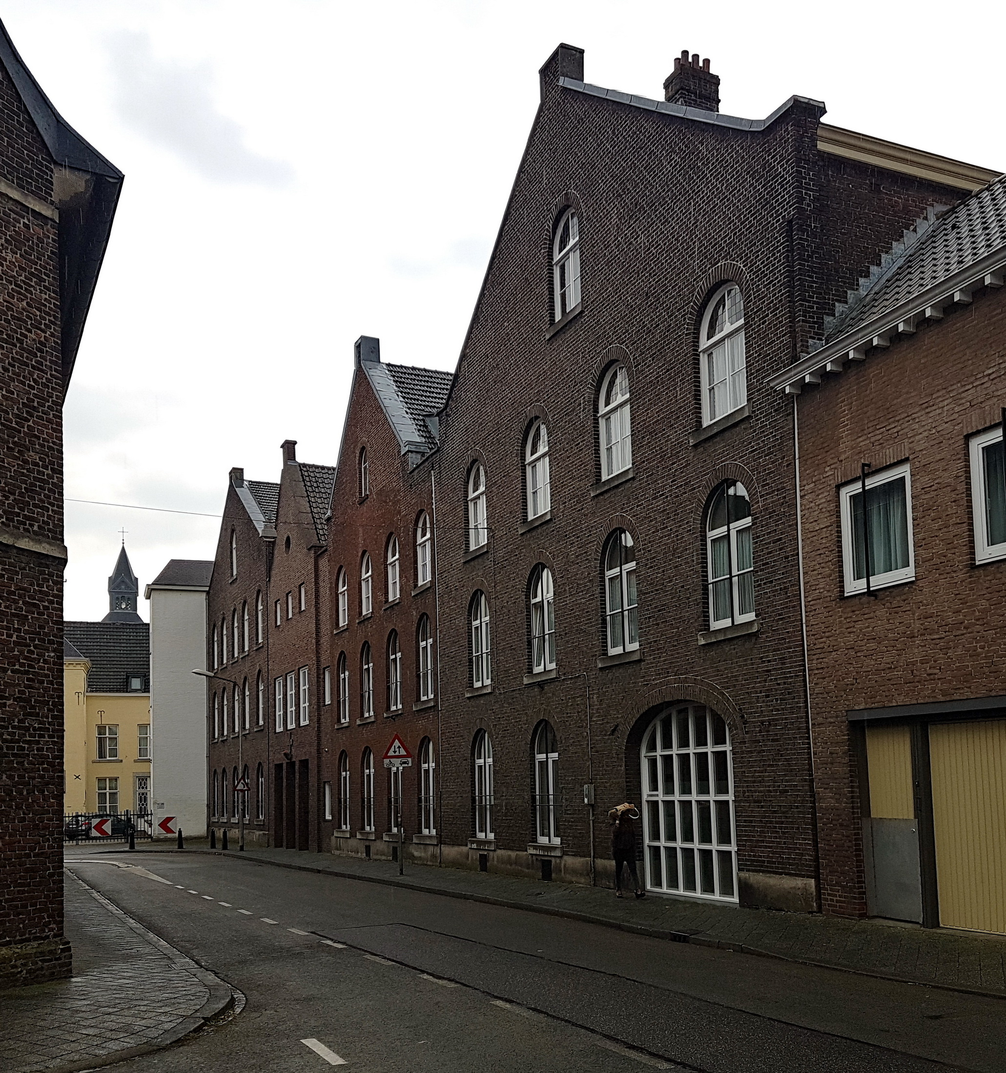 View of the monastery buildings of the Sisters of Saint Joseph and the RC Community of the Crucified and Risen Love at Kommel in Maastricht, the Netherlands.